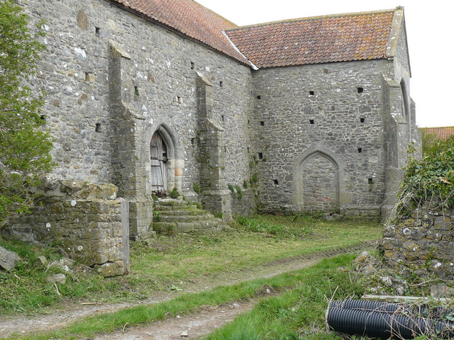 Tithe barn at Woodspring Priory, Somerset, England